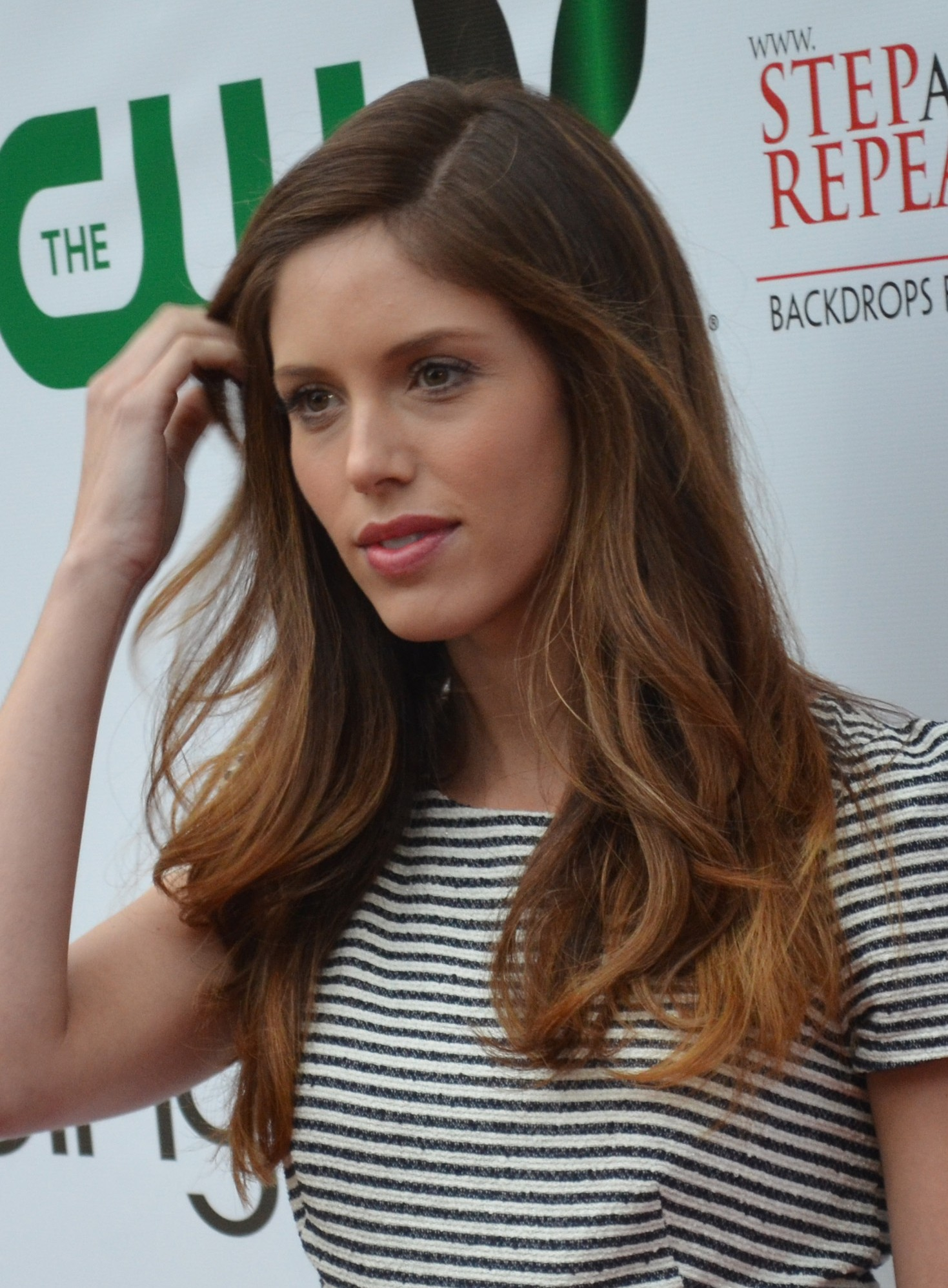 Kayla Ewell at the IS Foundation Influence Affair 2012.